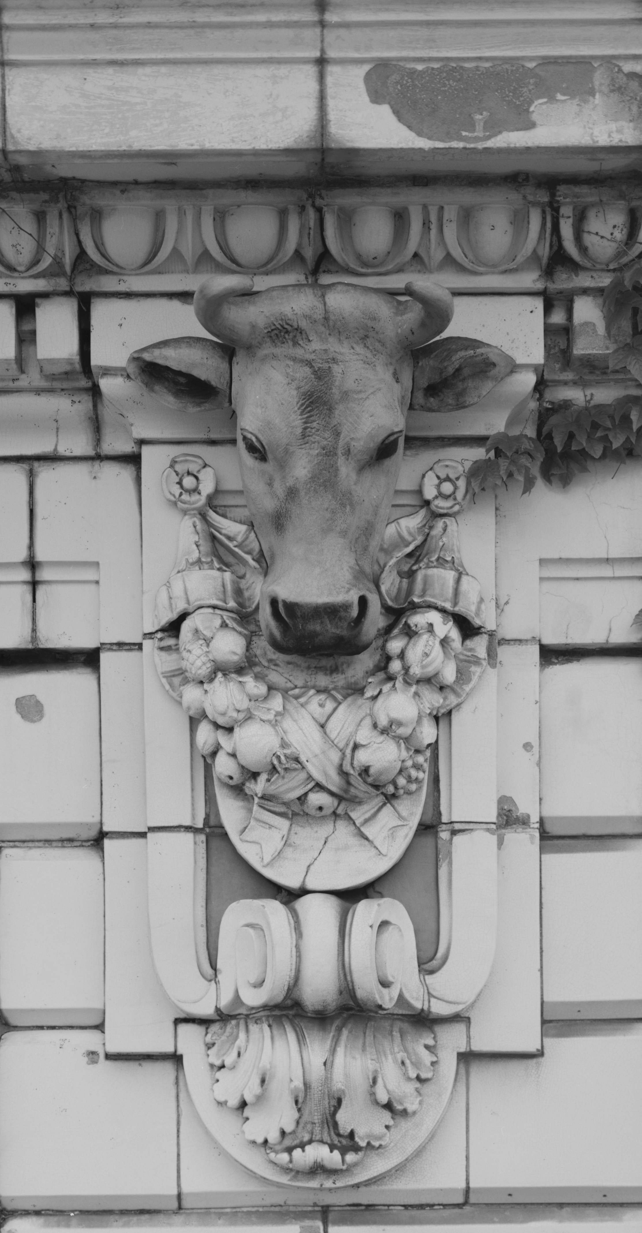 Cropped JPG version of File:Detail of typical terra cotta cowhead - Sheffield Farms Milk Plant, 1075 Webster Avenue (southwest corner of 166th Street), Bronx, Bronx County, NY HAER NY,3-BRONX,16-9.tif